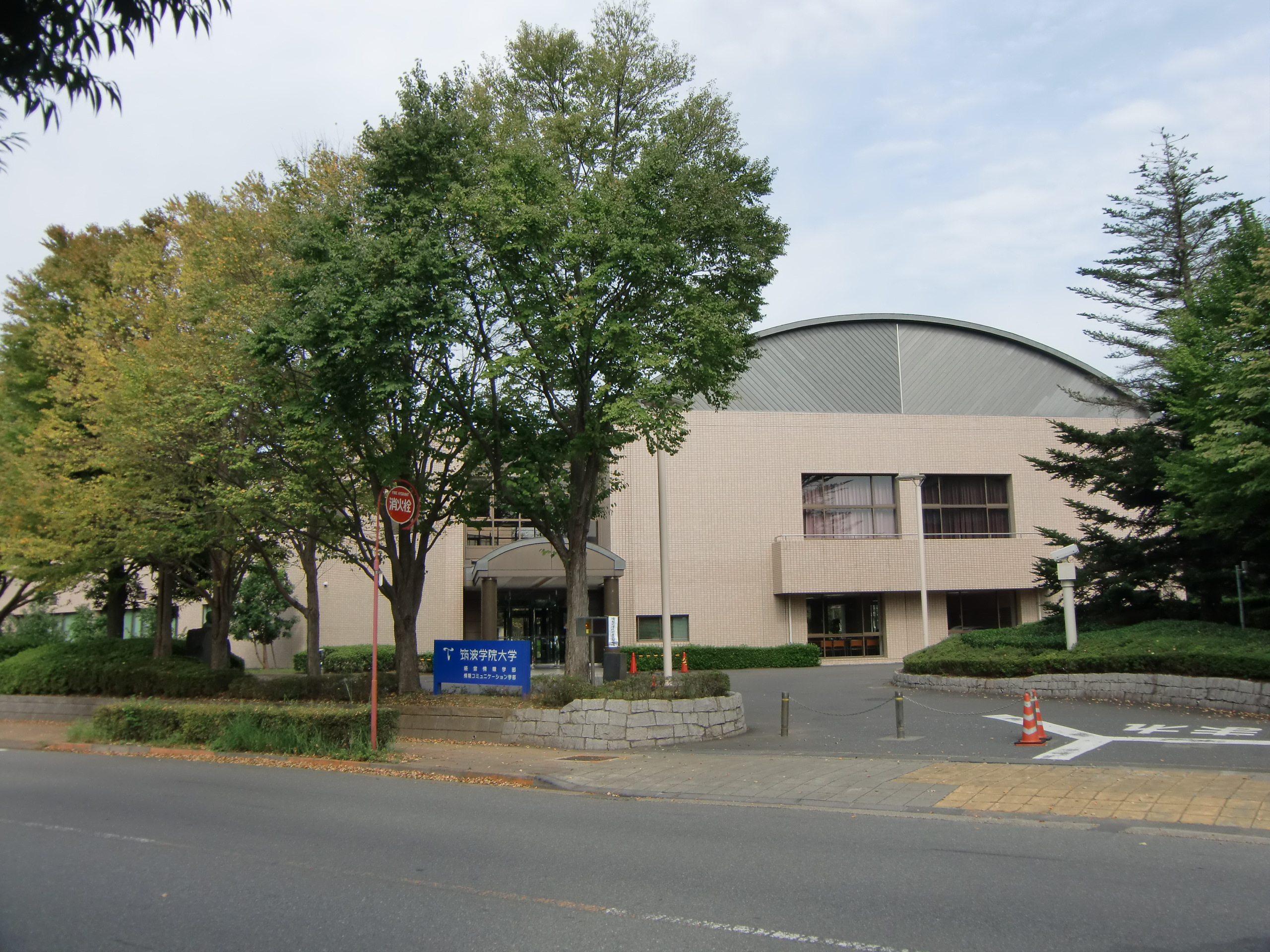 Tsukuba Gakuin University main entrance and auditorium in Azuma 3-chome 1, Tsukuba city, Ibaraki prefecture, Japan.